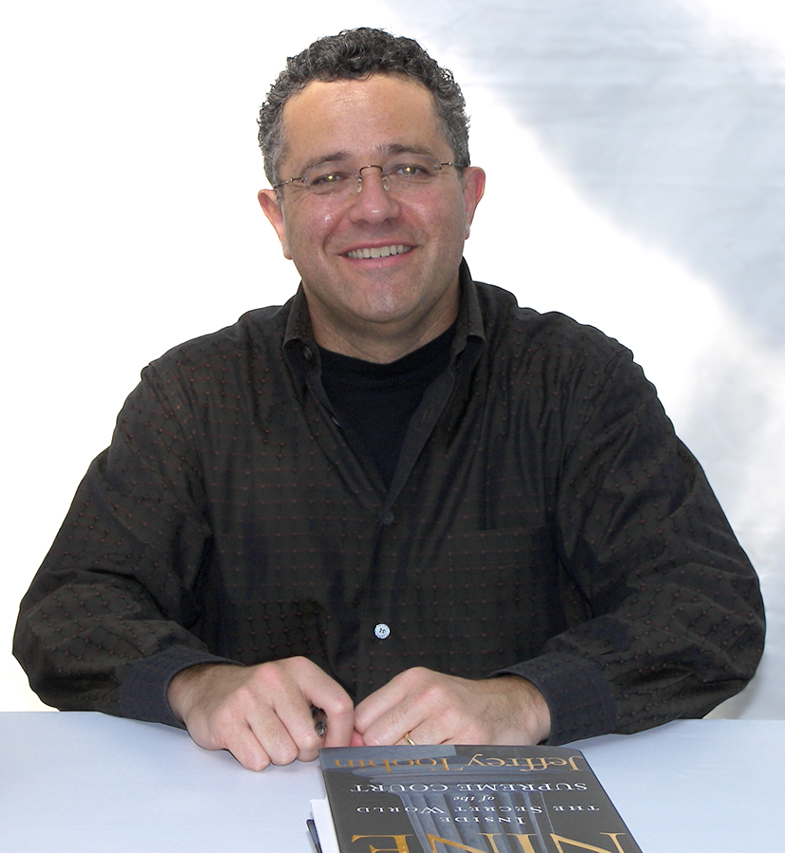 Jeffrey Toobin at the 2007 Texas Book Festival, Austin, Texas, United States.